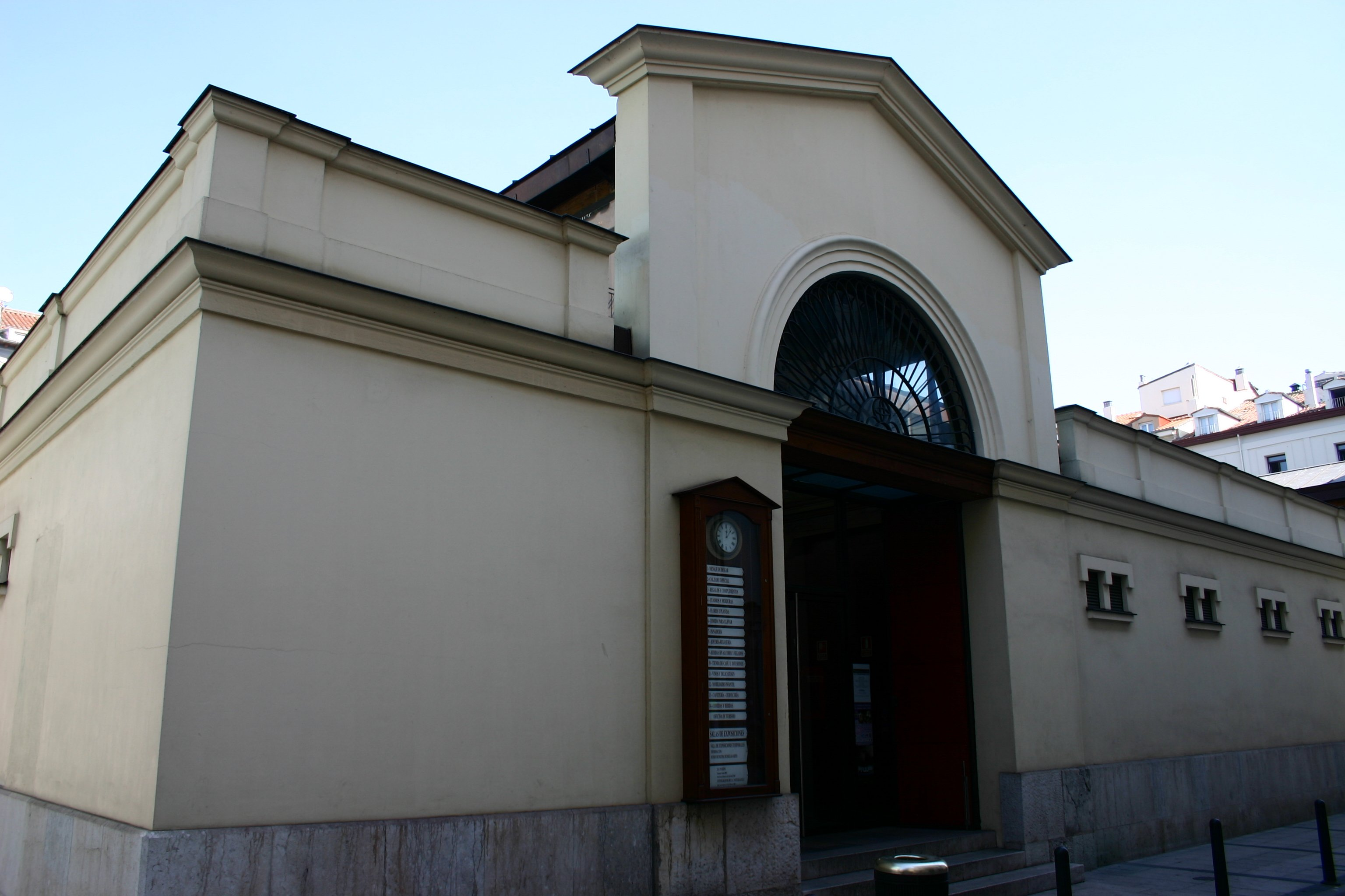 Mercado del Este, Santander